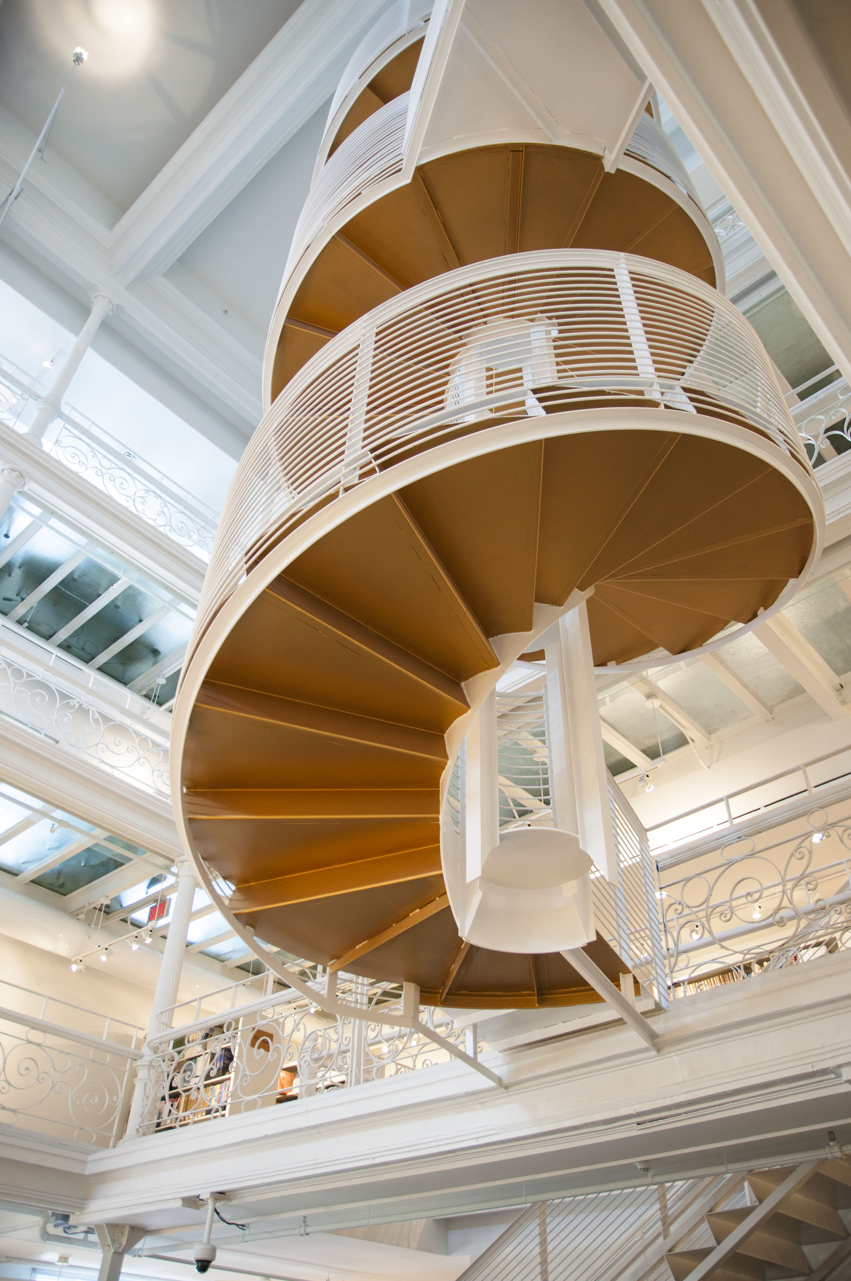 BAnQ Vieux-Montréal